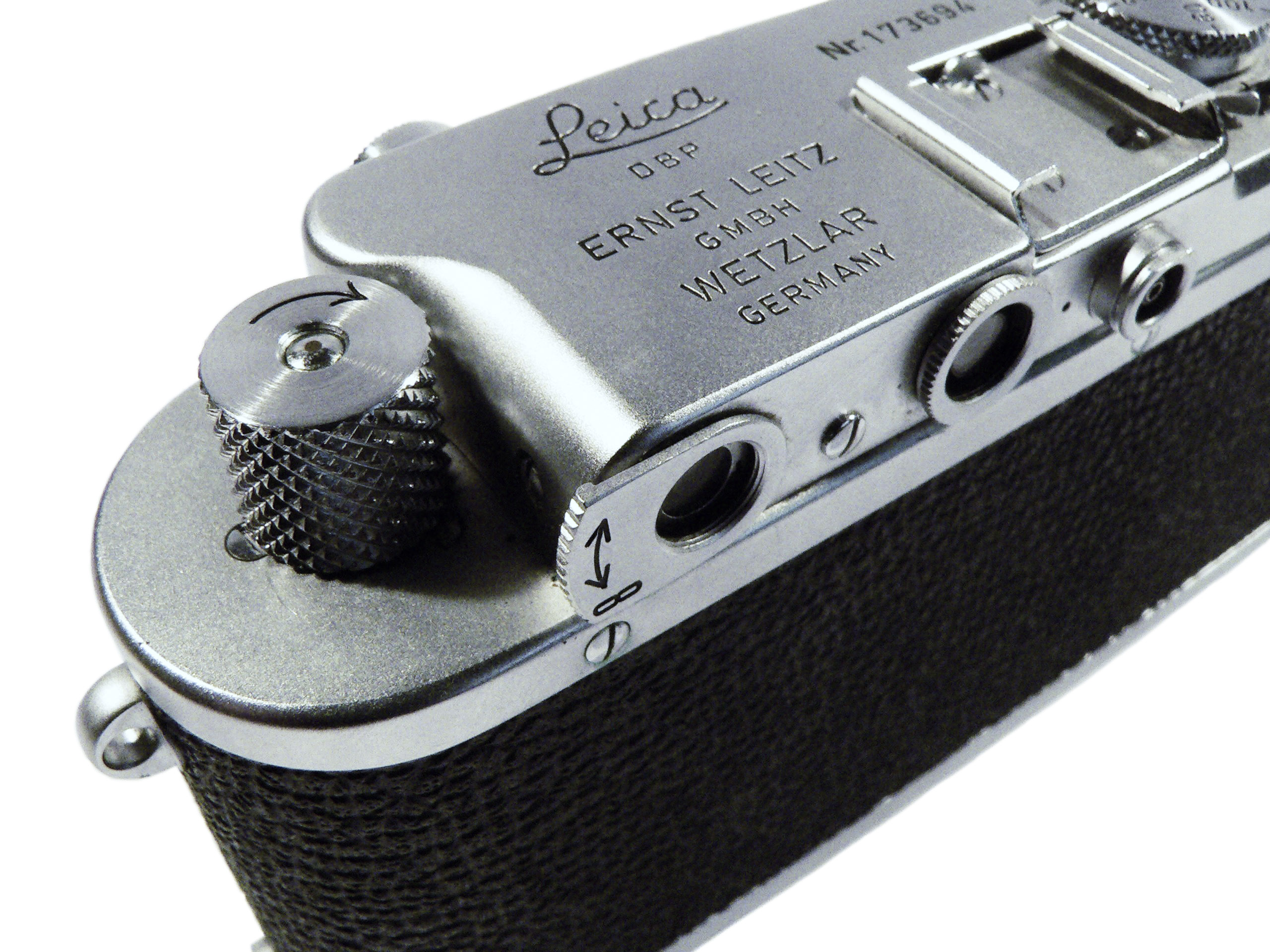 Leica III of 1935 [1]